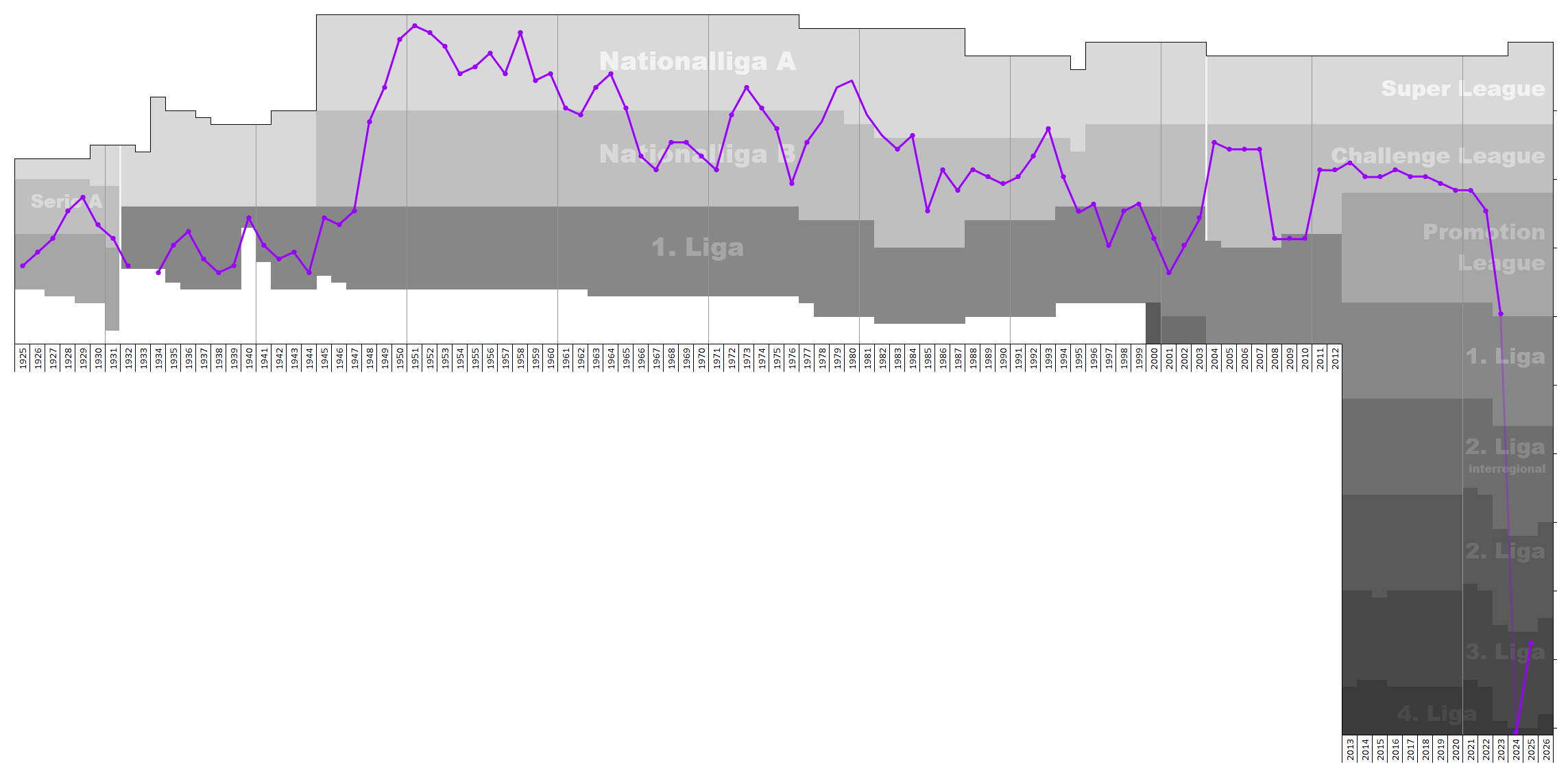 Chart of end-season table positions for FC Chiasso in the Swiss football league system. Data source: RSSSF